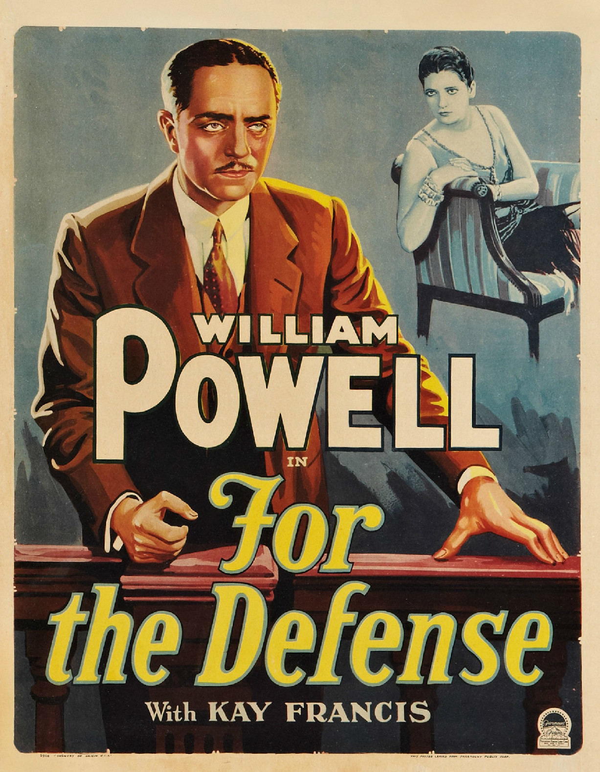 Window poster for the 1930 film For the Defense.